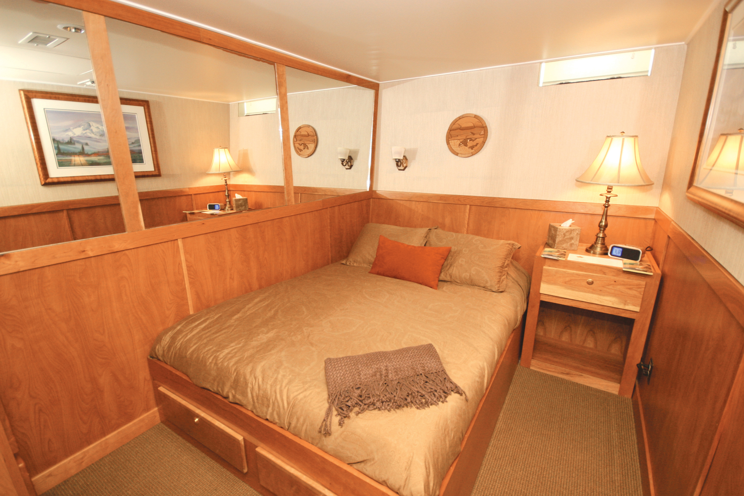 Mariner Stateroom of the Safari Quest